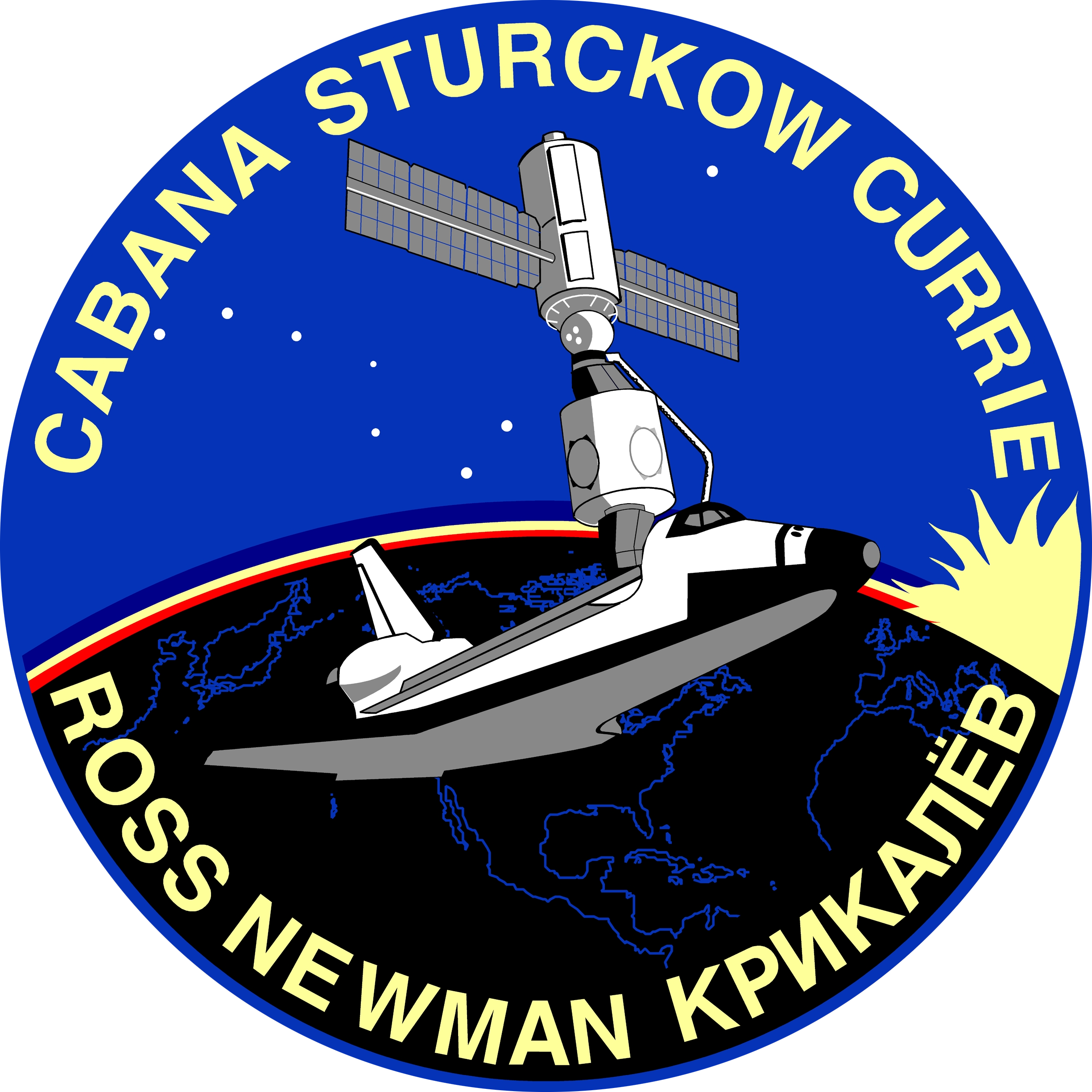 Designed by the crew members, this patch commemorates the first assembly flight to carry United States-built hardware for constructing the International Space Station (ISS). This flight's primary task is to assemble the cornerstone of the Space Station: the Node with the Functional Cargo Block (fgb). The rising sun symbolizes the dawning of a new era of international cooperation in space and the beginning of a new program: the International Space Station. The Earth scene outlines the countries of the Station Partners: the United States, Russia, those of the European Space Agency (ESA), Japan, and Canada. Along with the Pressurized Mating Adapters (PMA) and the Functional Cargo Block, the Node is shown in the final mated configuration while berthed to the Space Shuttle during the STS-88/2A mission. The Big Dipper Constellation points the way to the North Star, a guiding light for pioneers and explorers for generations. In the words of the crew, "These stars symbolize the efforts of everyone, including all the countries involved in the design and construction of the International Space Station, guiding us into the future."